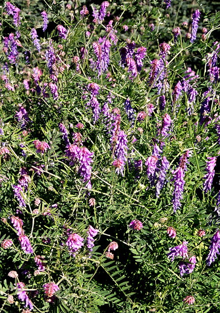 Bird vetch (vicia cracca) is an aggressive and colorful subalpine species of vine. Its purple-to-pink flowers are impossible to miss, and it blooms profusely from June through August. This relative of the pea is rich in nectar and is very popular with bees and butterflies. Its seed pods, resembling tiny pea pods, are not suitable for consumption because of toxins they contain. Ø2004 D. Windrim Captioned As { }